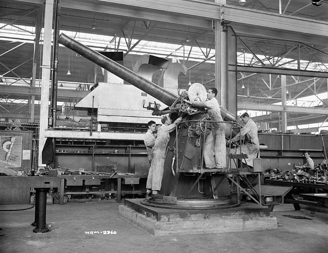 LAC caption : "Longueuil, Quebec. Workmen assemble a 4-inch naval gun in the Dominion Engineering Works plant". Comment : This appears to be a QF 4-inch Mk V. See also : Front view : File:4 inch gun front Dominion Engineering 1942 LAC 3196180.jpg Rear view : File:4 inch gun rear Dominion Engineering 1942 LAC 3196182.jpg